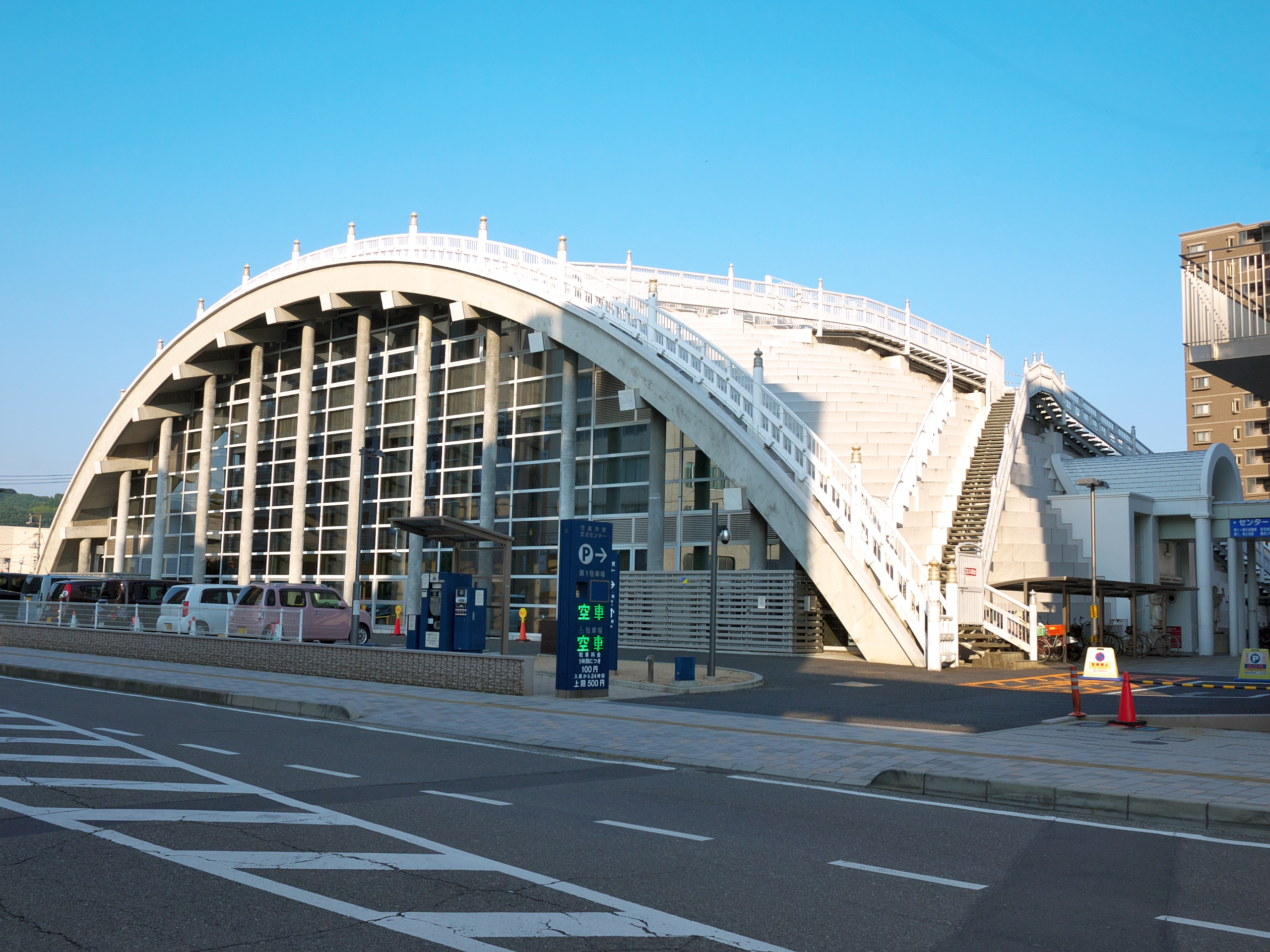 Exchange Building of Kojima Citizens Exchange Center